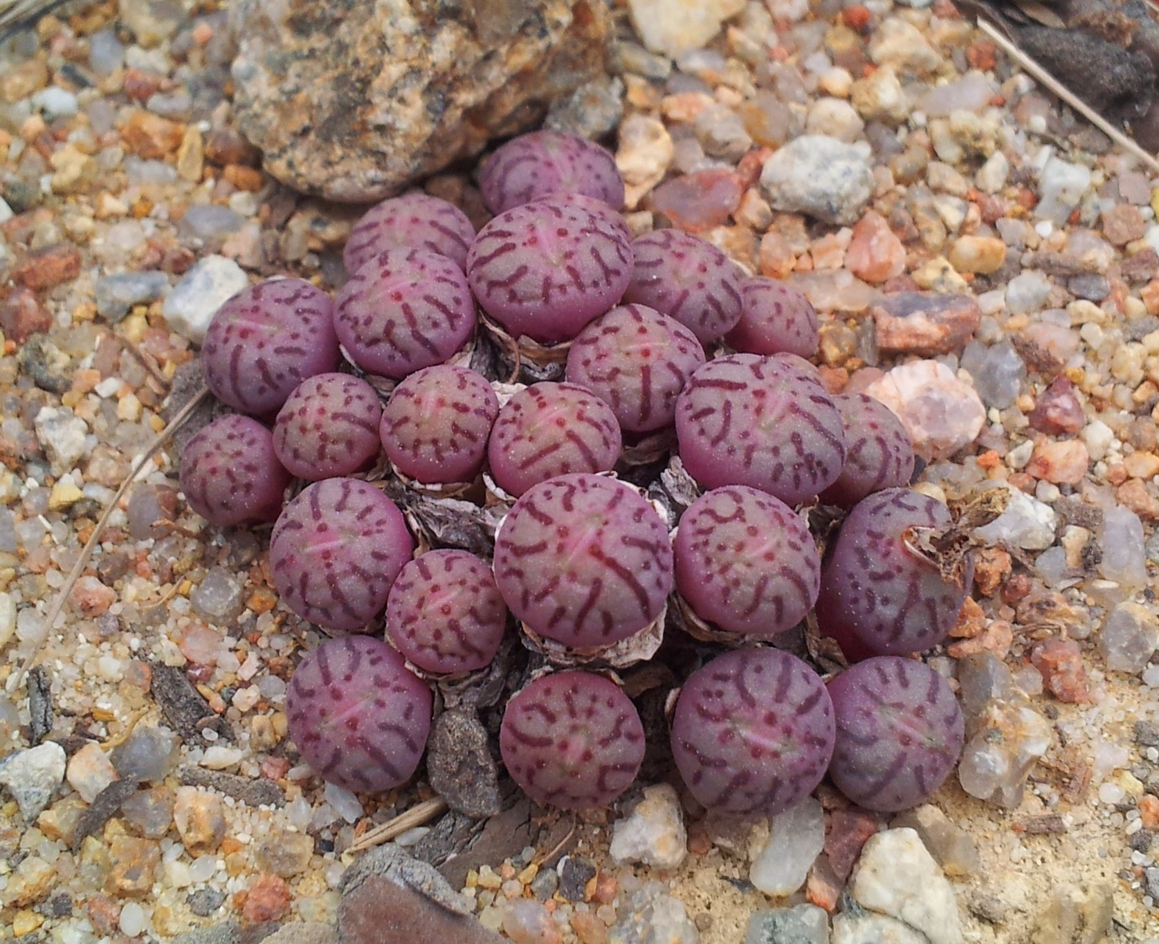 Purple variety of Conophytum minimum - sourced from Laingsburg RSA